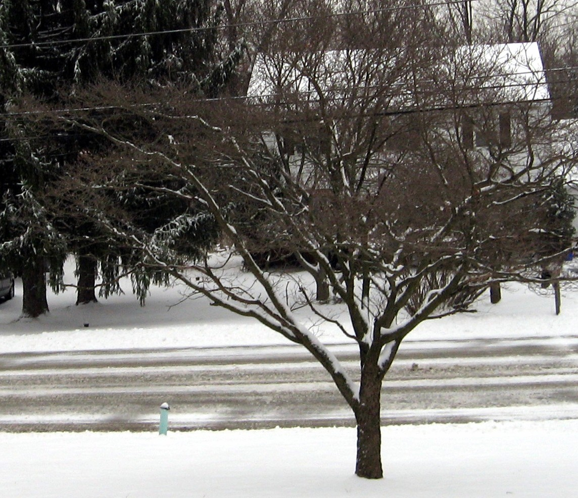 The results of a snowstorm in Chester County, Pennsylvania.